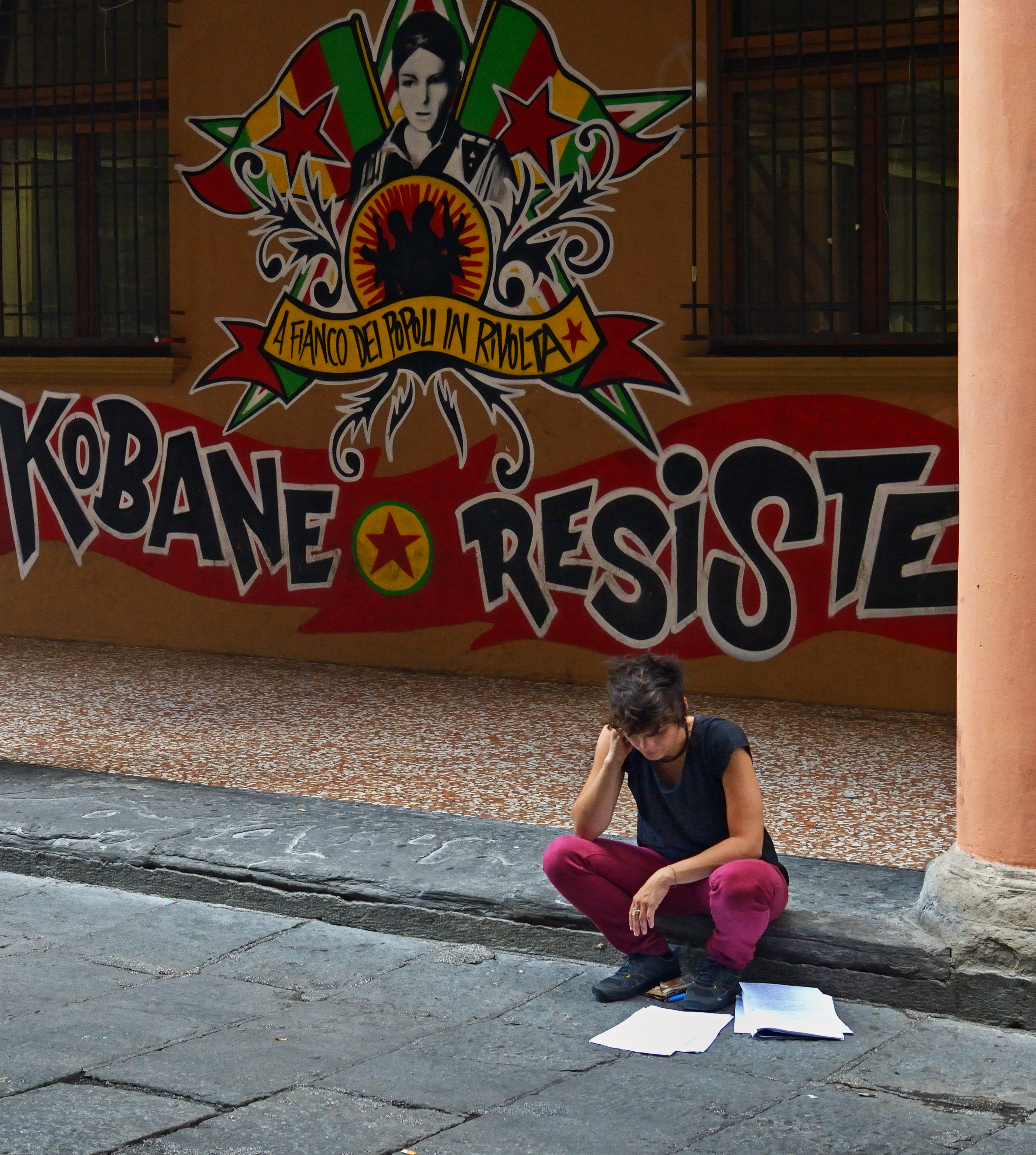 The girl-student on the background of pro-Kurdish graffiti . Bologna University, Italy